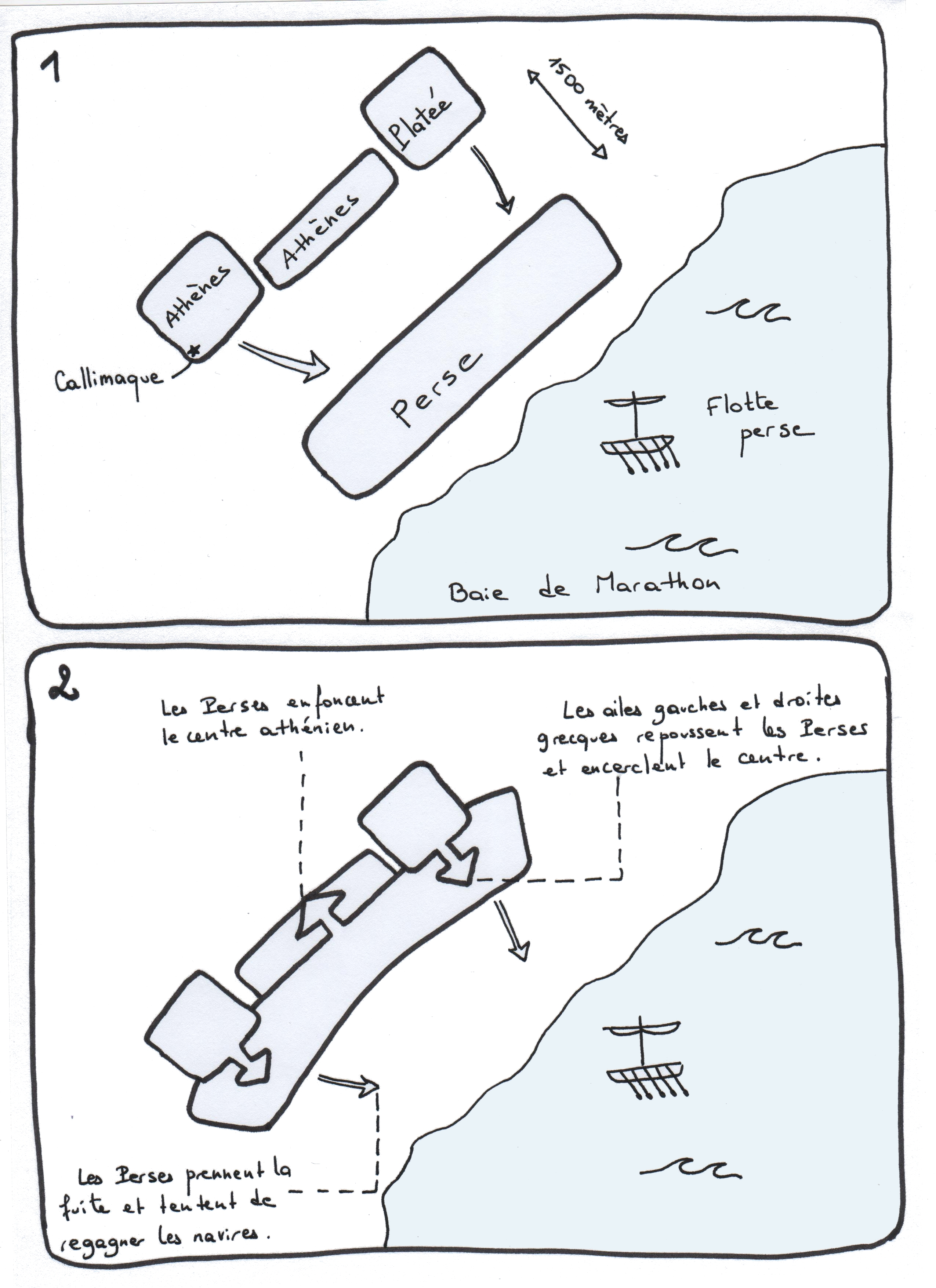 Map of the Battle of Marathon.